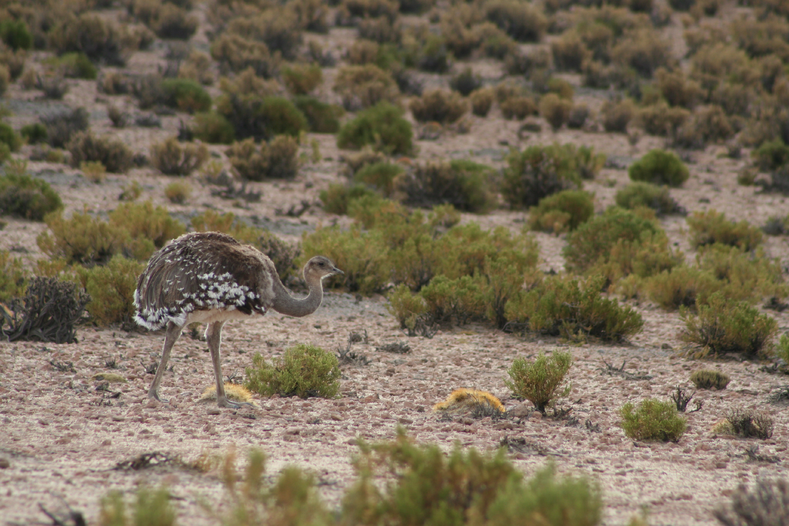 Darwin's rhea! What a sight! Found in the far southeastern corner of Bolivia, near the Reserva Eduardo Avaroa.